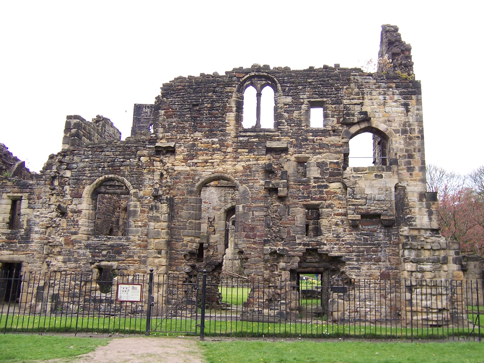 former lodging of the abbot of Kirkstall Abbey in Leeds, Yorkshire (England) own work; photo taken on 30 April 2006